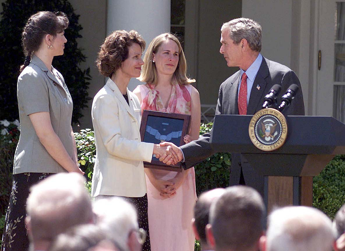 Sandra Swanson, flanked by daughters Brigid Swanson Jones and Holly Walker, shakes President George W. Bush's hand during a ceremony in the White House's Rose Garden to posthumously honor her husband, Capt. Jon E. Swanson, with the Medal of Honor for his sacrifice during the Vietnam War.